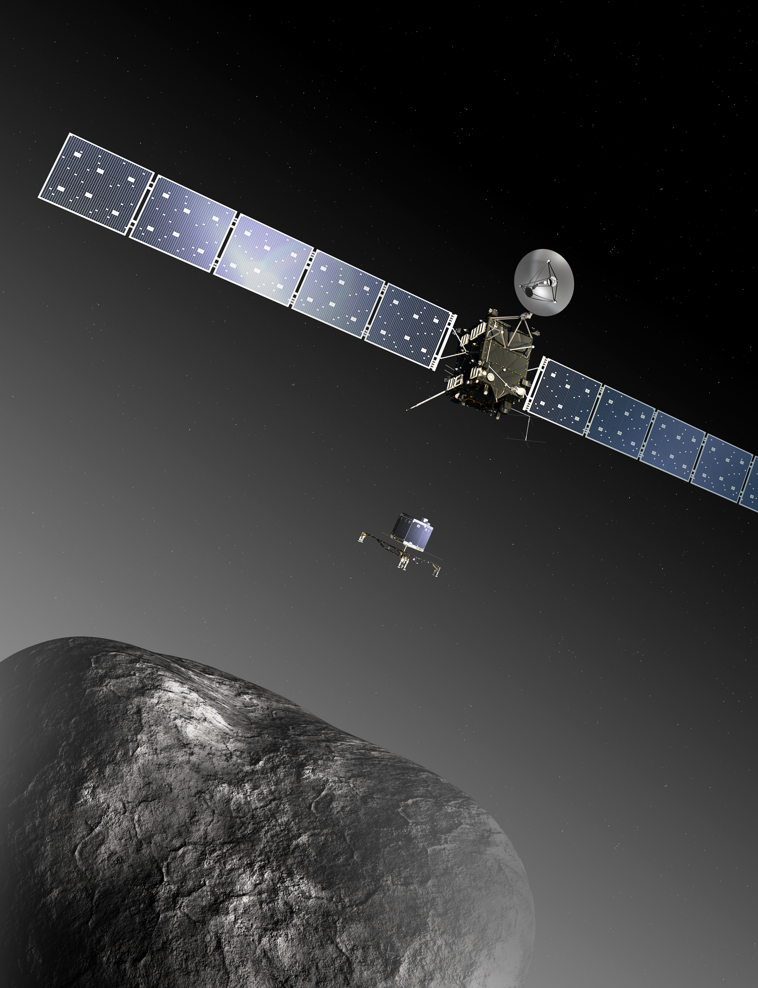 Artist’s impression of the Rosetta orbiter deploying the Philae lander to comet 67P/Churyumov–Gerasimenko. The image is not to scale; the Rosetta spacecraft measures 32 m across including the solar arrays, while the comet nucleus is thought to be about 4 km wide. Credit: ESA–C. Carreau/ATG medialab